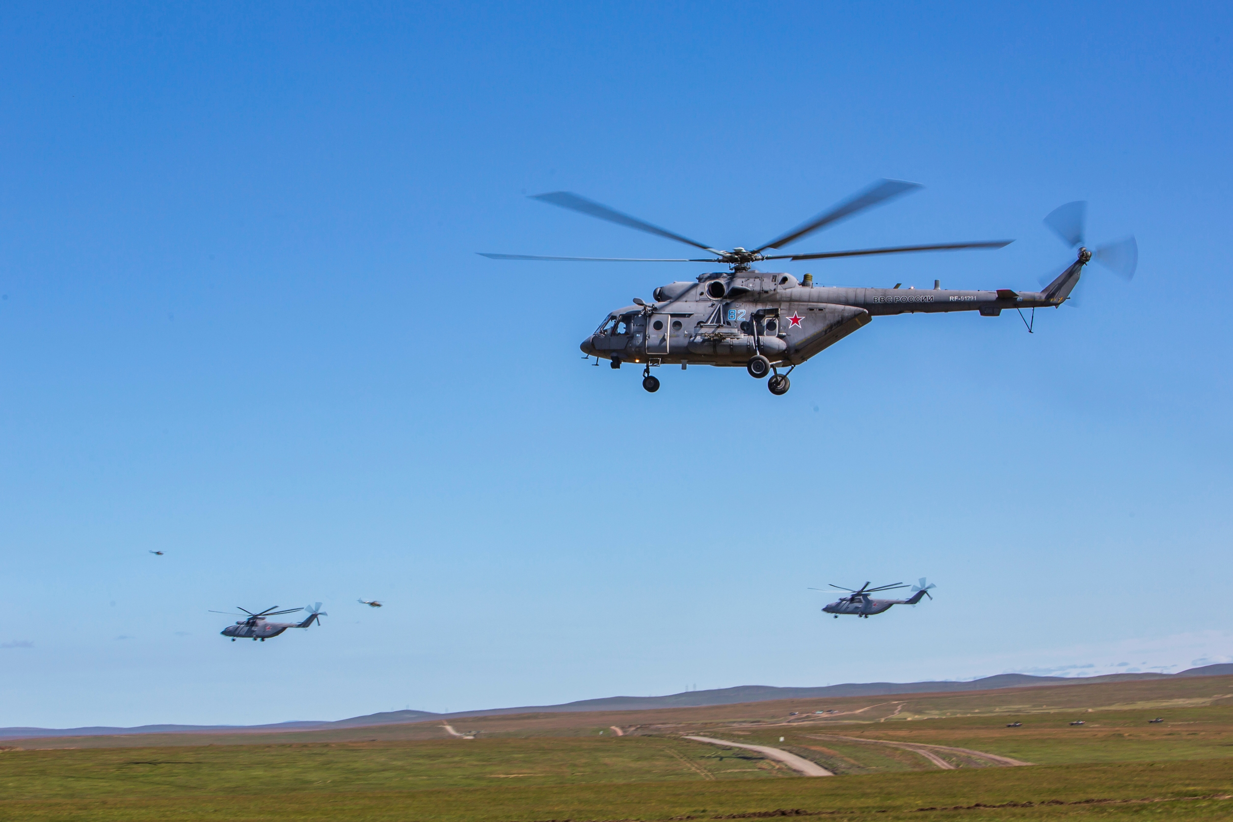 Mil Mi-8AMTSh. Vostok 2018 Russian military exercises.